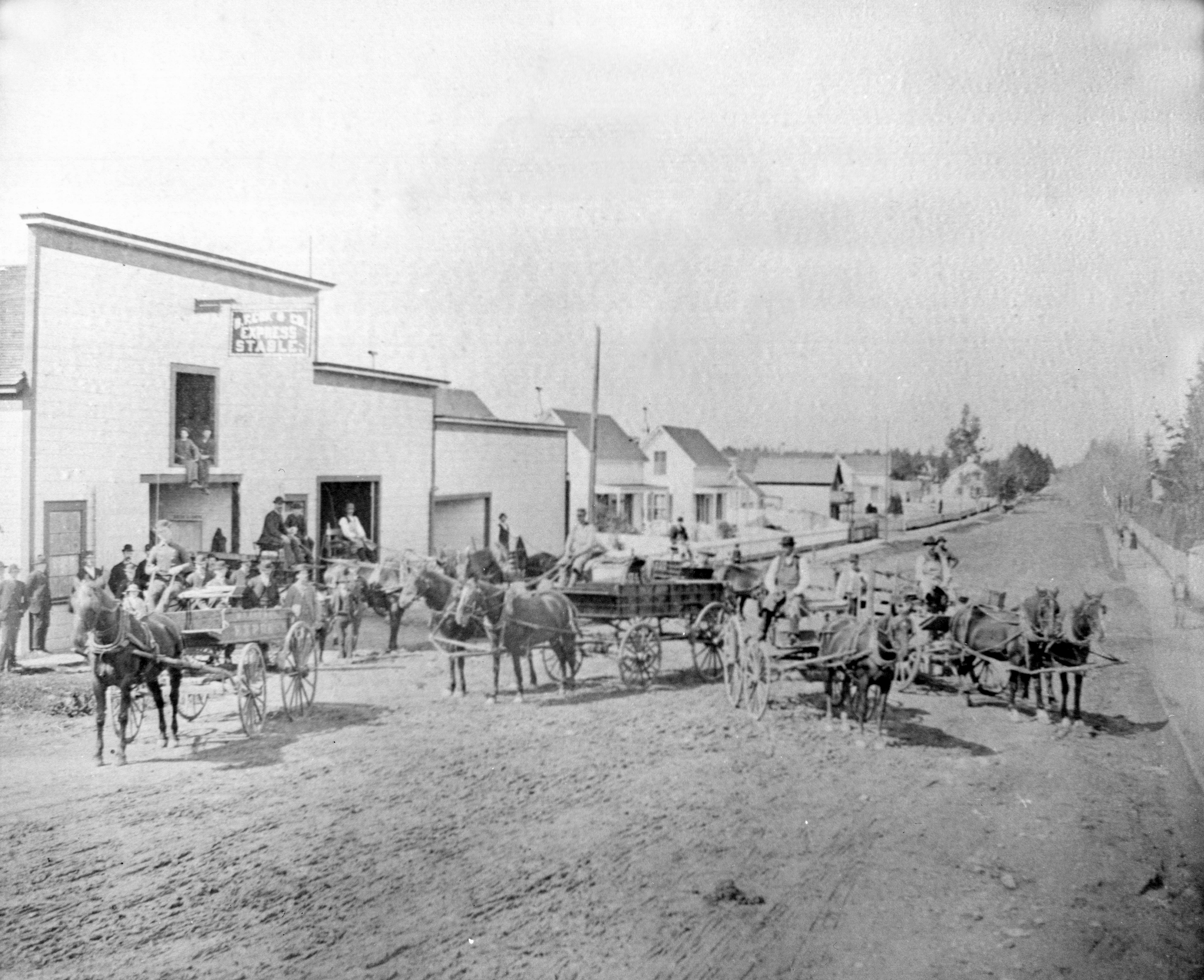 BF Cox Express Stable, Petaluma, California.